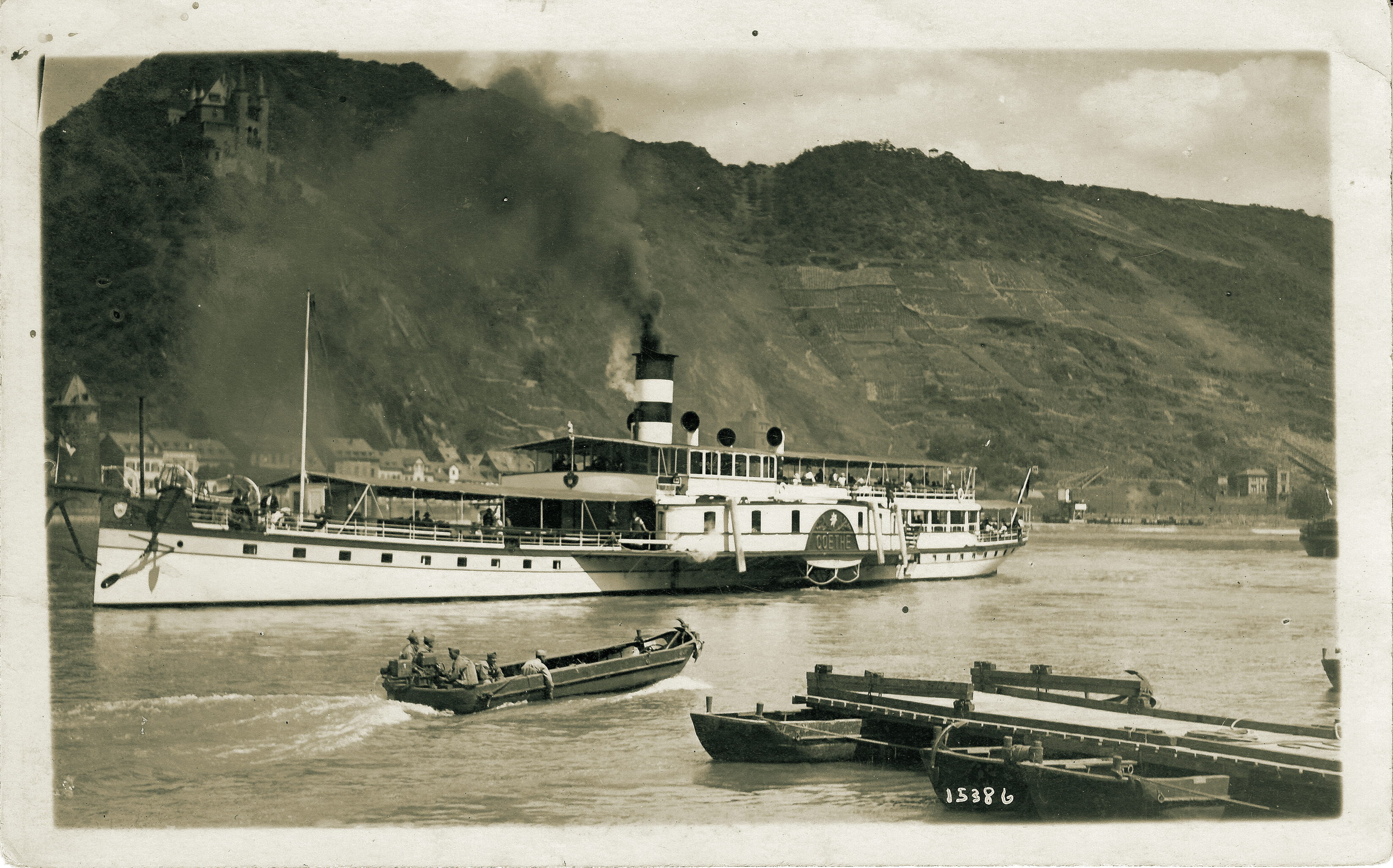 Paddle steamer Goethe on the Rhine near Sankt Goarshausen in July 1924. In front on the right a floating bridge built by the French Occupation Army.